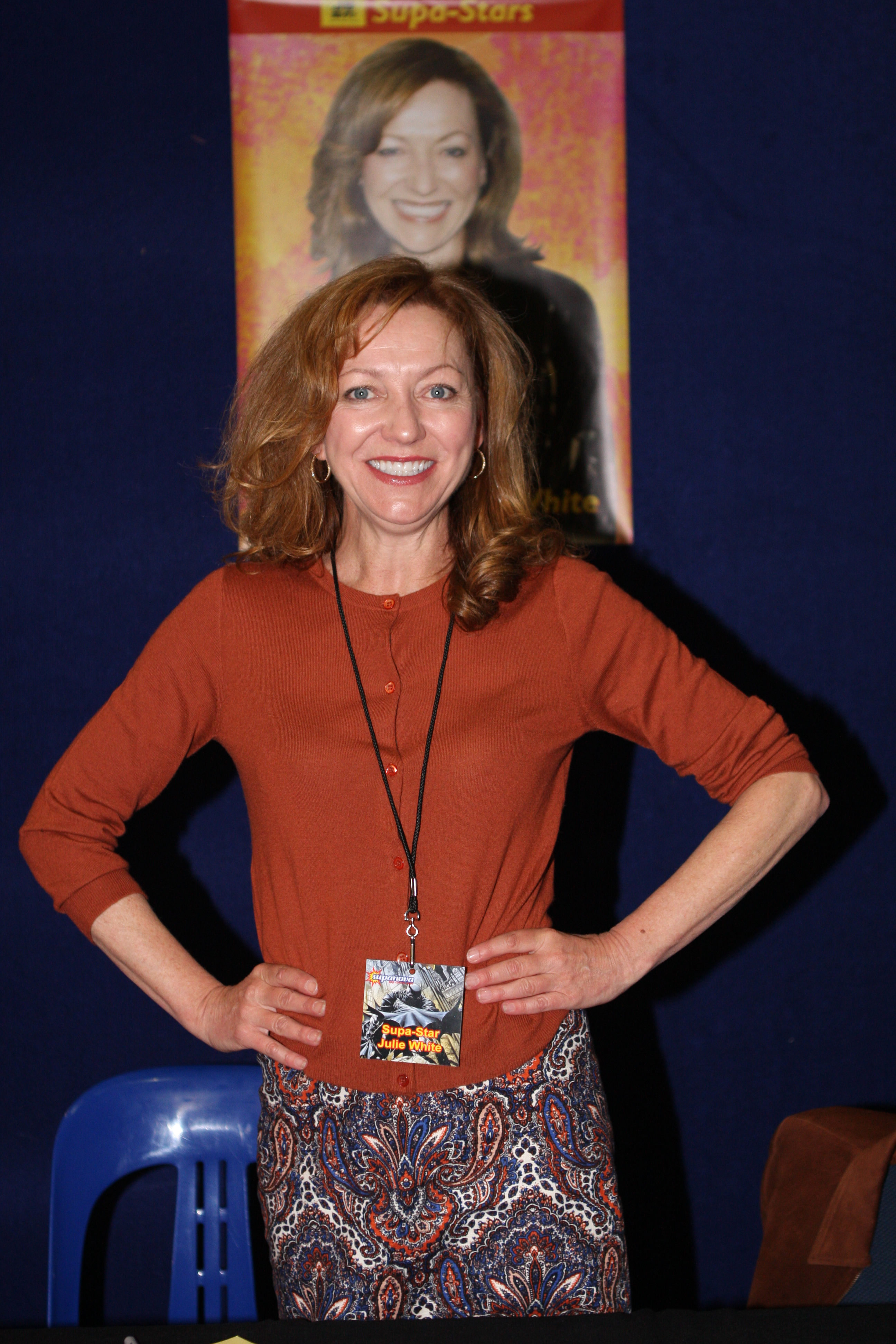 Julie White Transformers